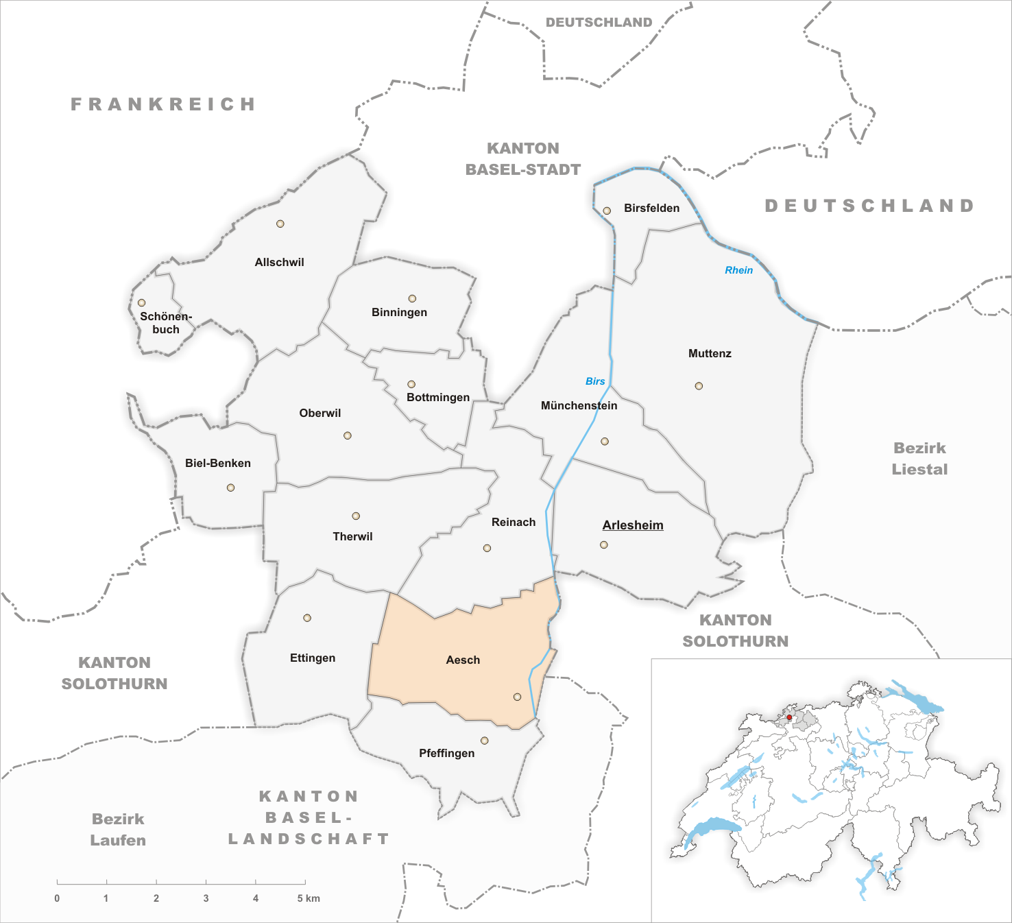 Municipality Aesch